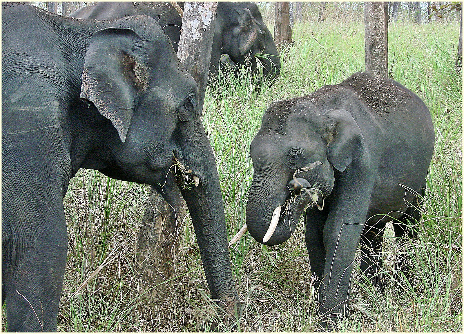 Teacher and Taught. . . The communication amongst family members in elephant herds is always fascinating. An elephant family is invariably led by the oldest and most experienced female- matriarch. The matriarchal society consists of her female offspring and their young and in some cases, it may include matriarch's sisters and her offspring as well. It is this close contact, communication and relationship, that allows the rest of the members of herd to acquire knowledge to be used when needed. .